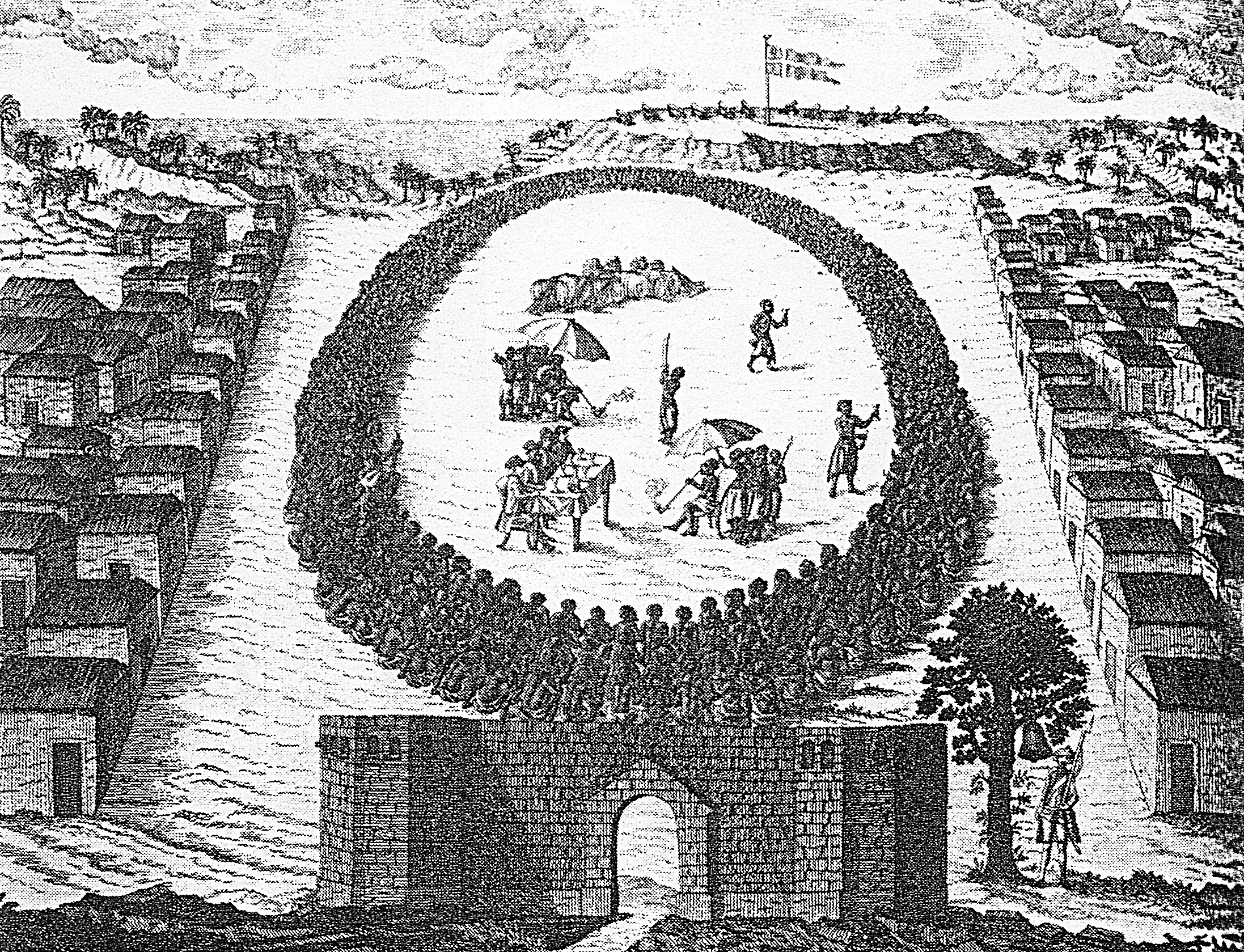 Symbolic picture of the meeting of the Danish Governor of the Gold Coast with the kings and chiefs of allied nations on 14 February 1784 on Fort Kongensteen in Ada. This fort was still under construction to this time. The Assembly has passed at least 500 people.